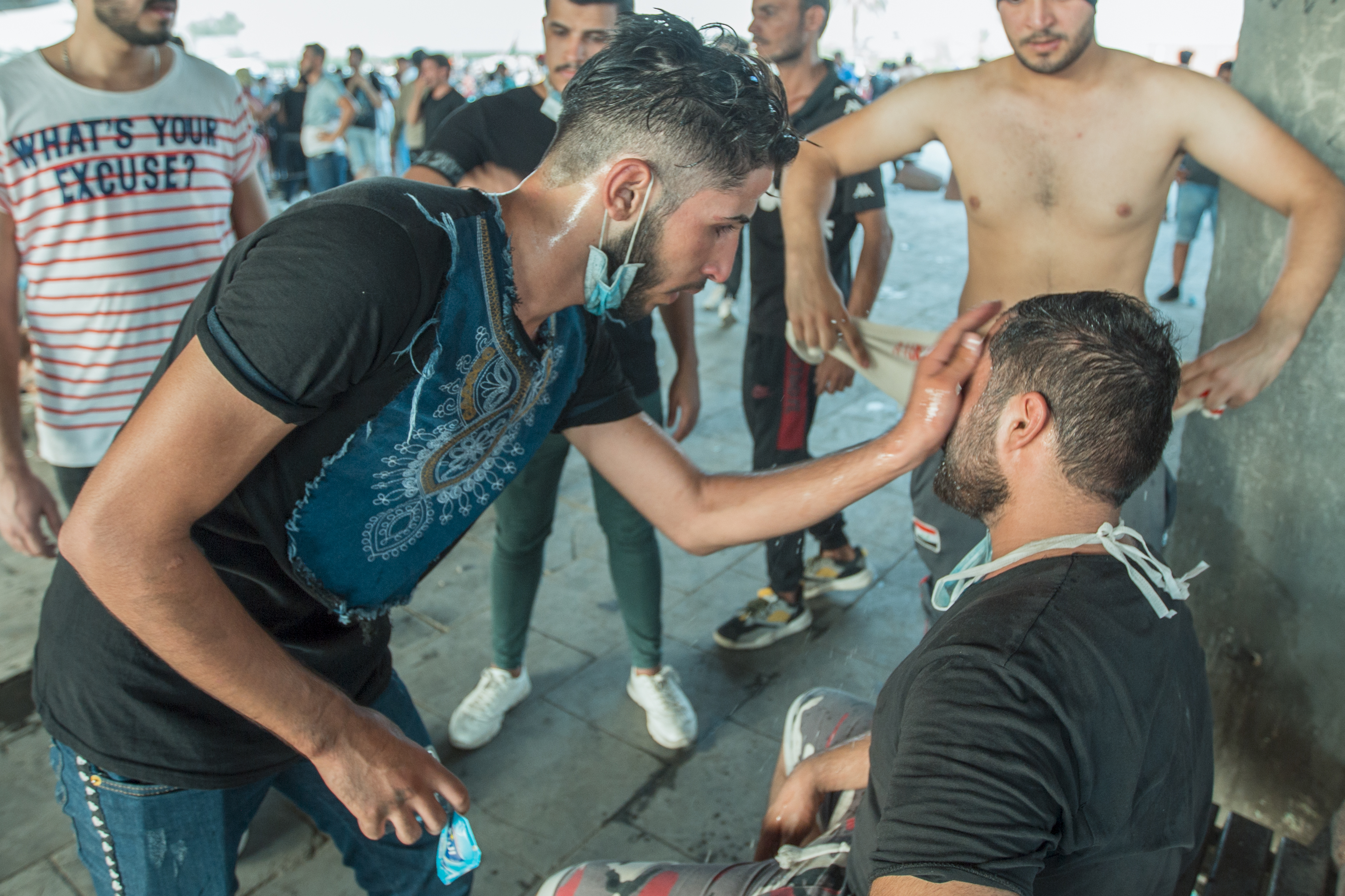 An ambulance demonstrator suffocates from tear gas